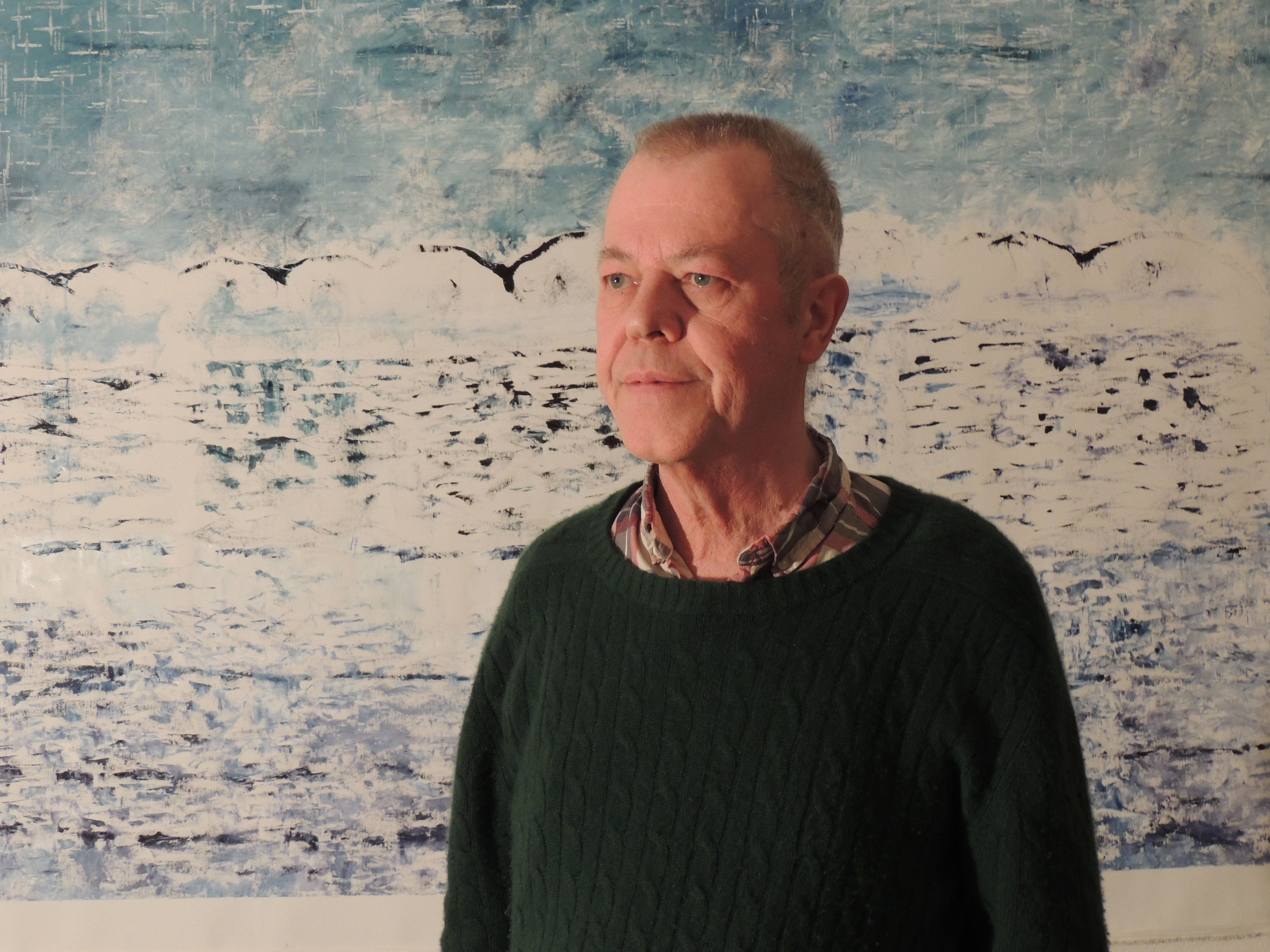 Rolf Winnewisser, Painter